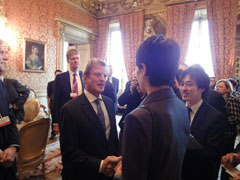 Chinami Honda, Parliamentary Secretary for Foreign Affairs, met Bernard Kouchner, Minister of Foreign and European Affairs, in Paris Commune, Paris Department, Île-de-France Region on October 22, 2009.